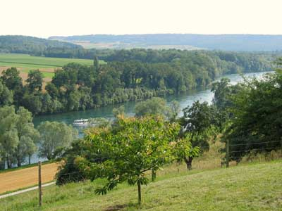 The river Rhine at Gailingen